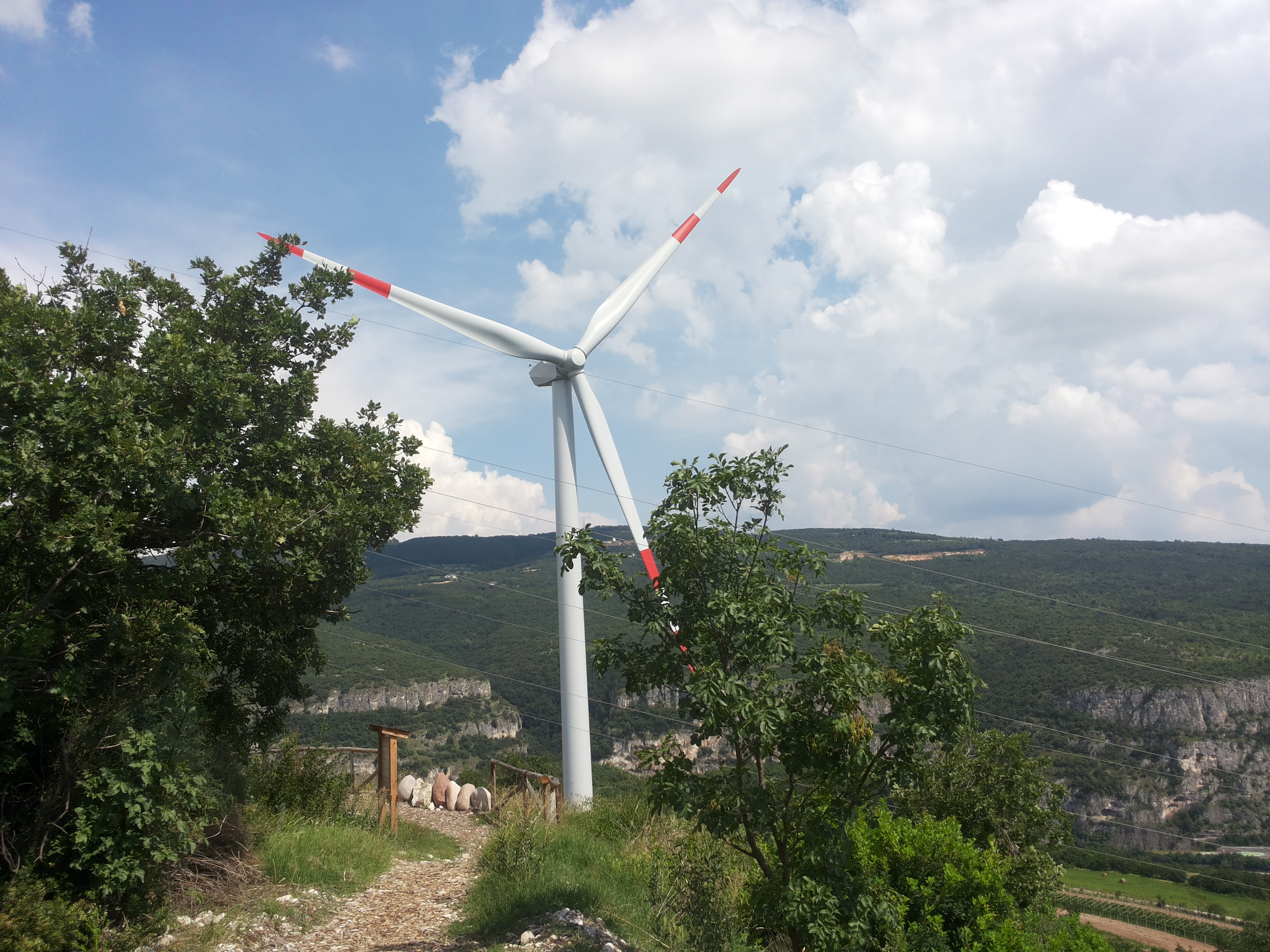 Wind turbines in the wind farm of Mount Mesa in Rivoli Veronese (Verona province). The park has 4 wind turbines of 2 MW. The plant was put into operation in 2013.